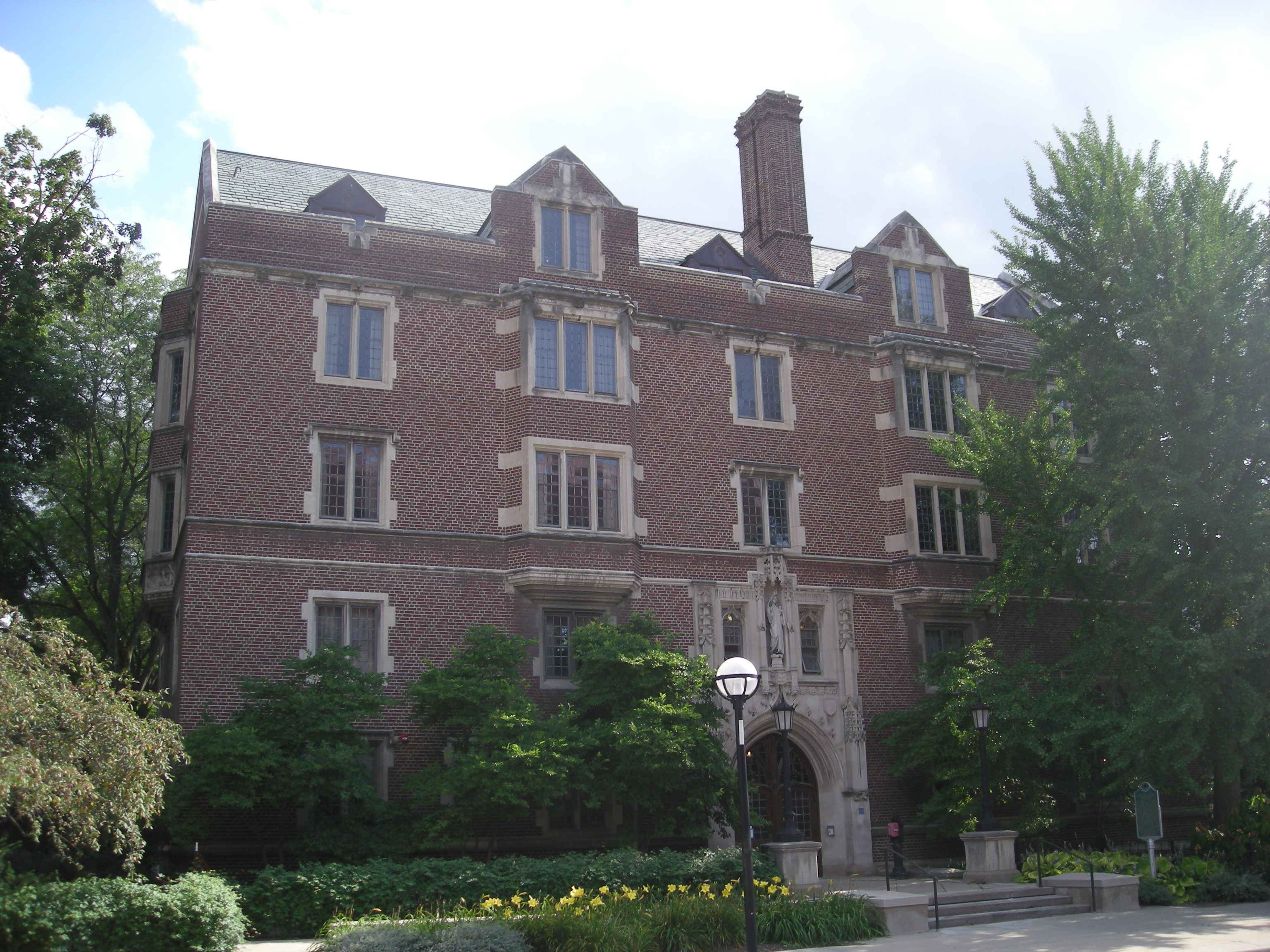 The Martha Cook Building on the central campus of the University of Michigan in Ann Arbor, Michigan (United States).